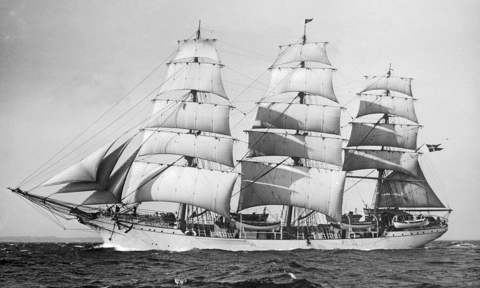 Denmark frigate